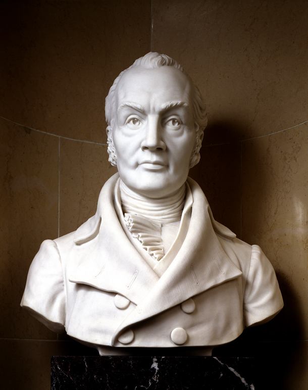 Imacon Color Scanner